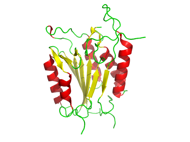 Structure of the complex of caspase 3 with a phenyl-propyl-ketone inhibitor